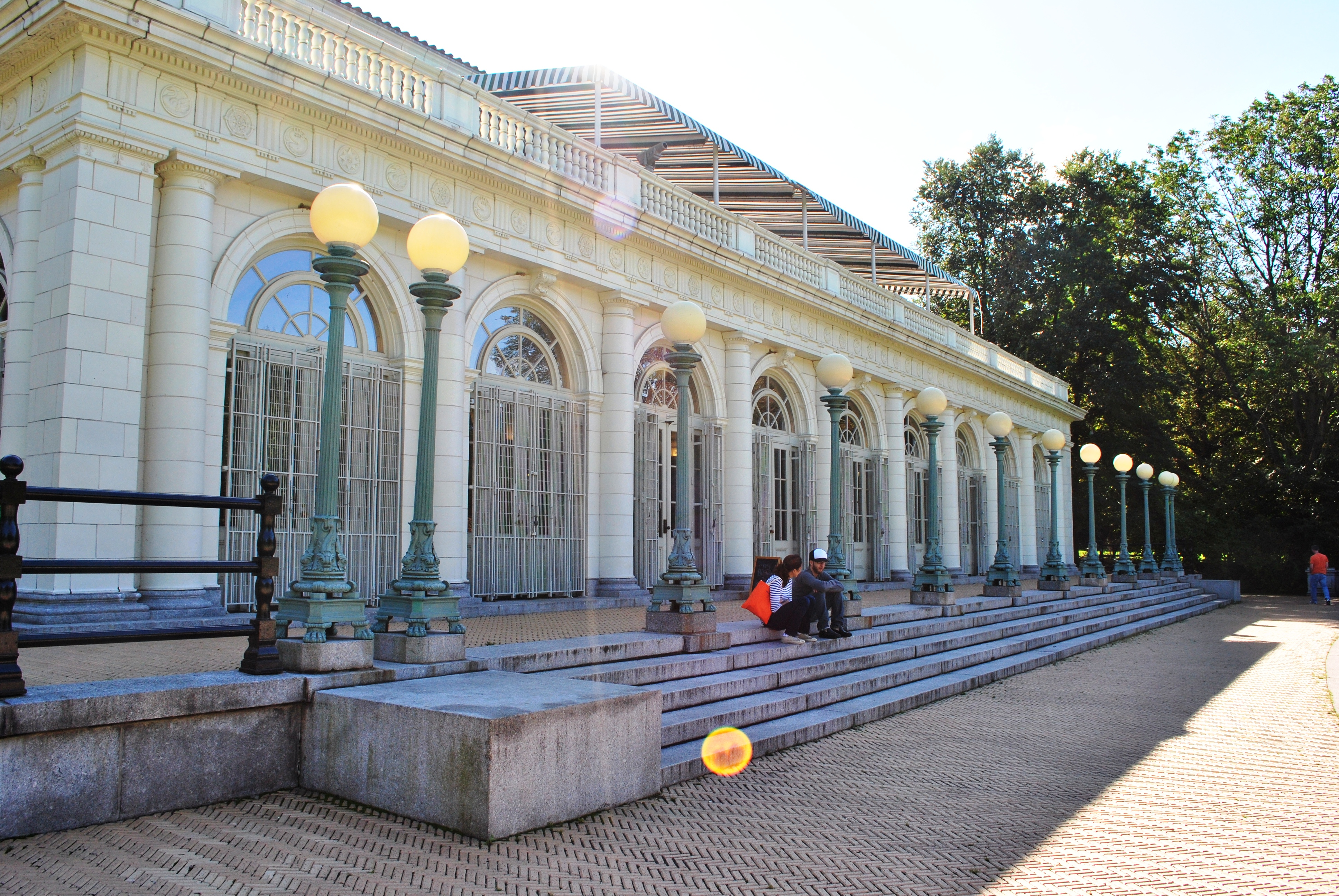 Boathouse on the Lullwater of the Lake in Prospect Park